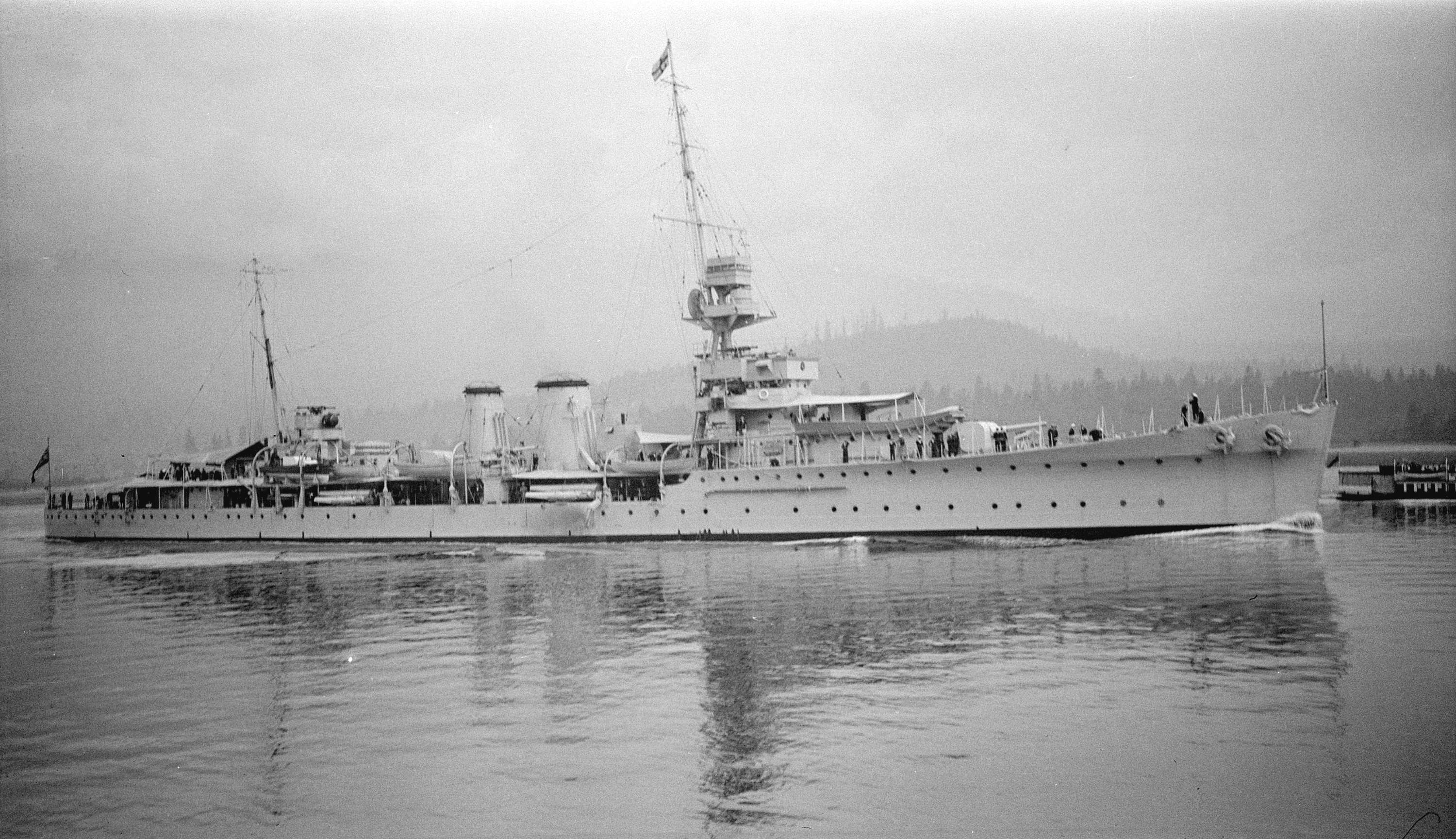 HMS Delhi underway at Vancouver.